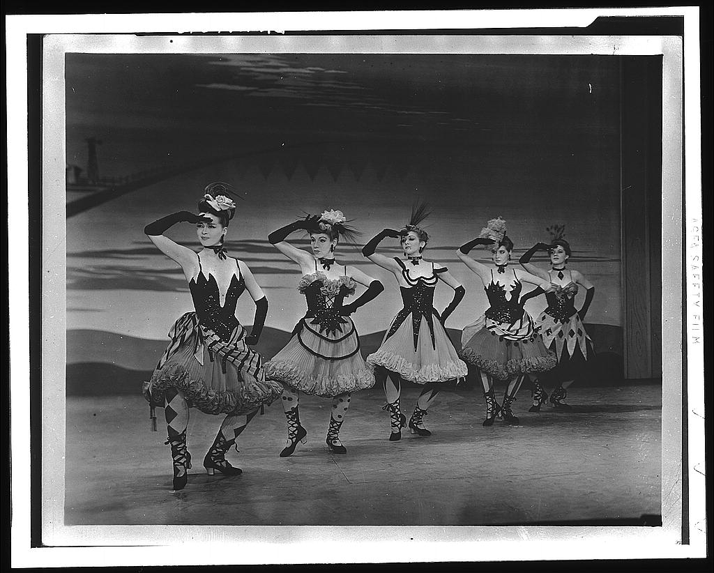 [Scene from "Oklahoma," 1943-1944. Theatre Guild production